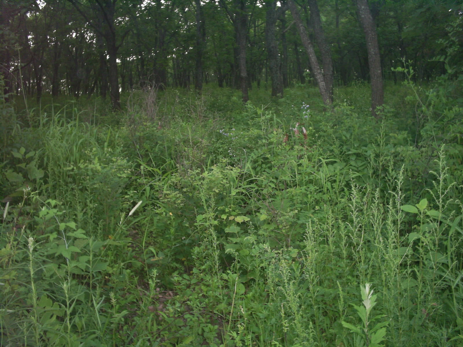 High Grass in Sikhote-Alin's Forest, Primorsky Krai